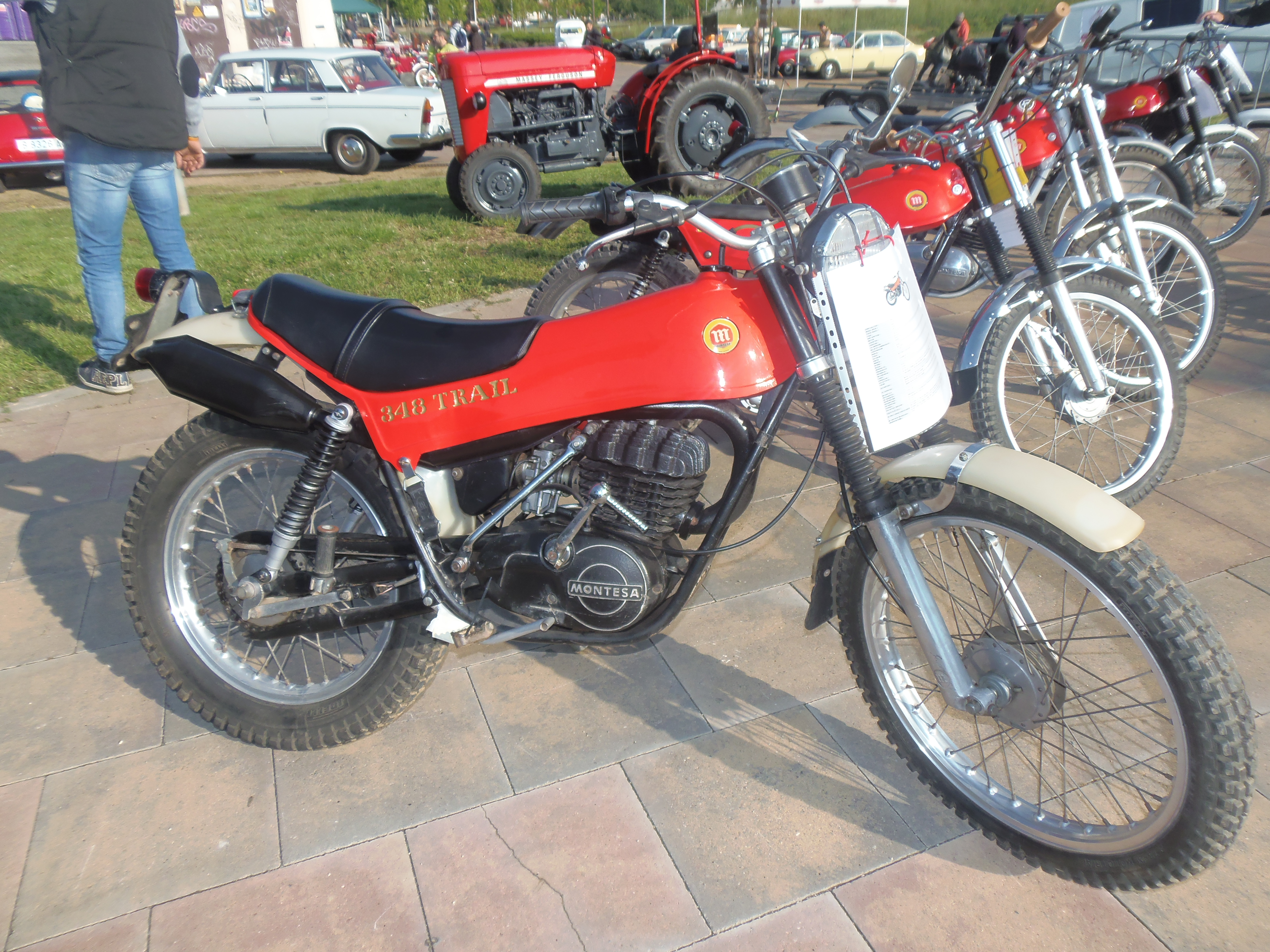 Montesa Cota 348 Trail, 1977